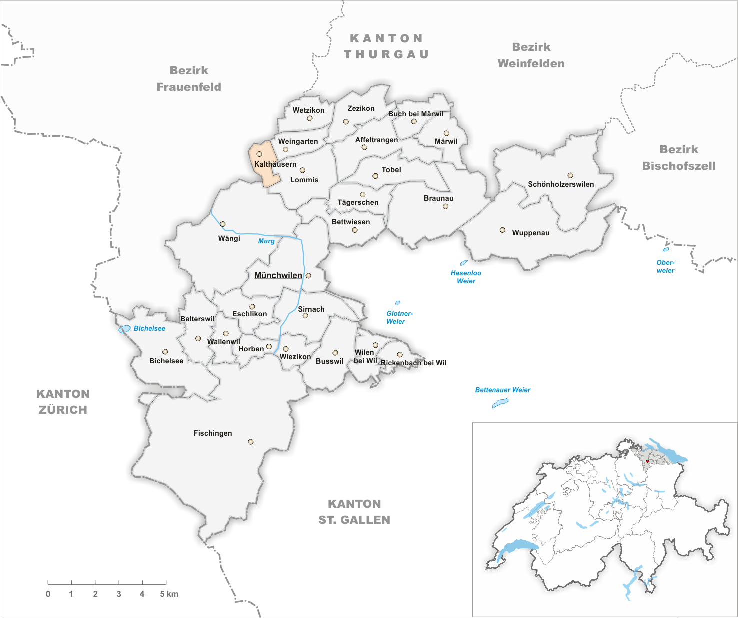 Municipality Kalthäusern